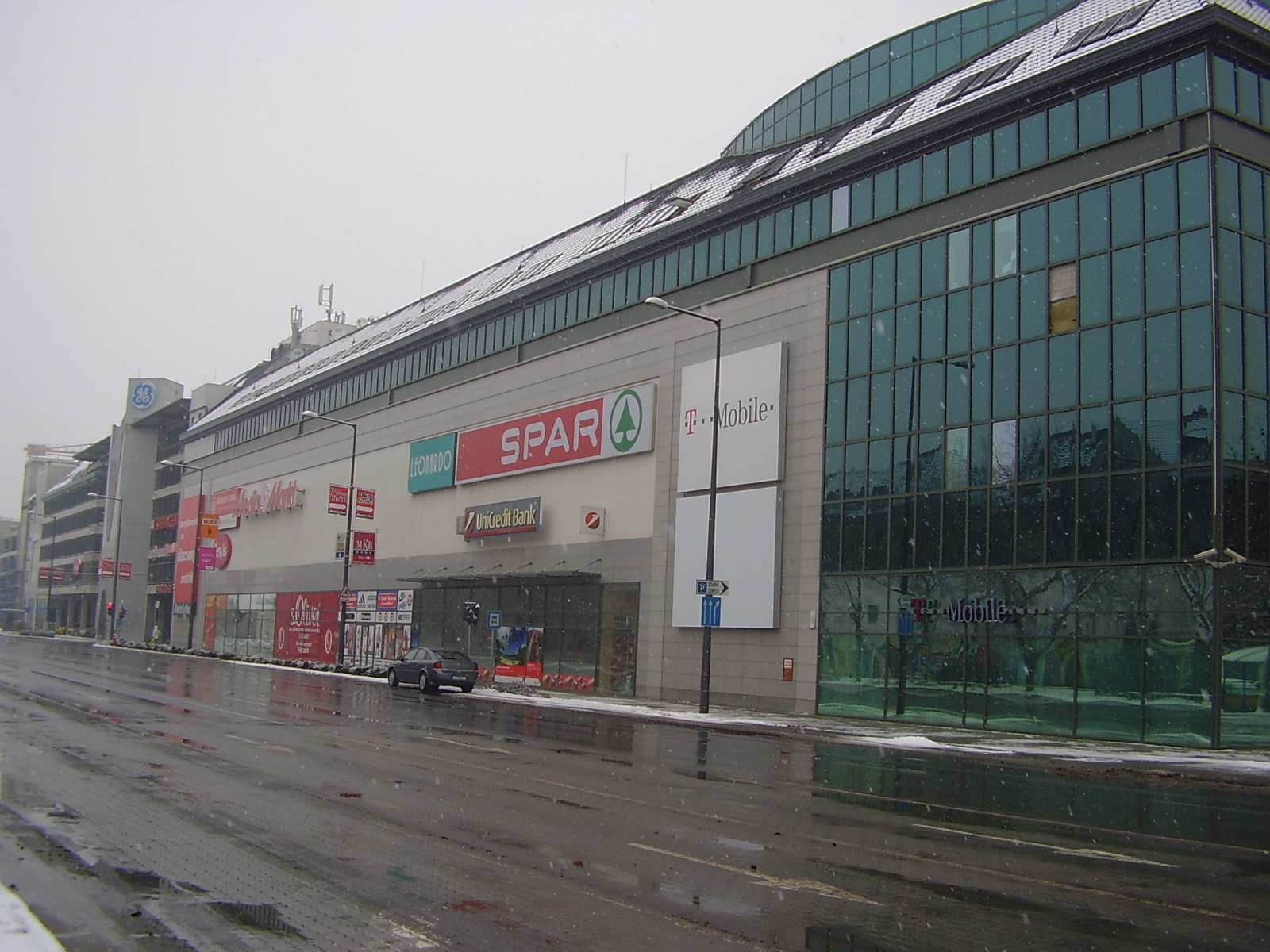 Shopping center "Csaba-Center"